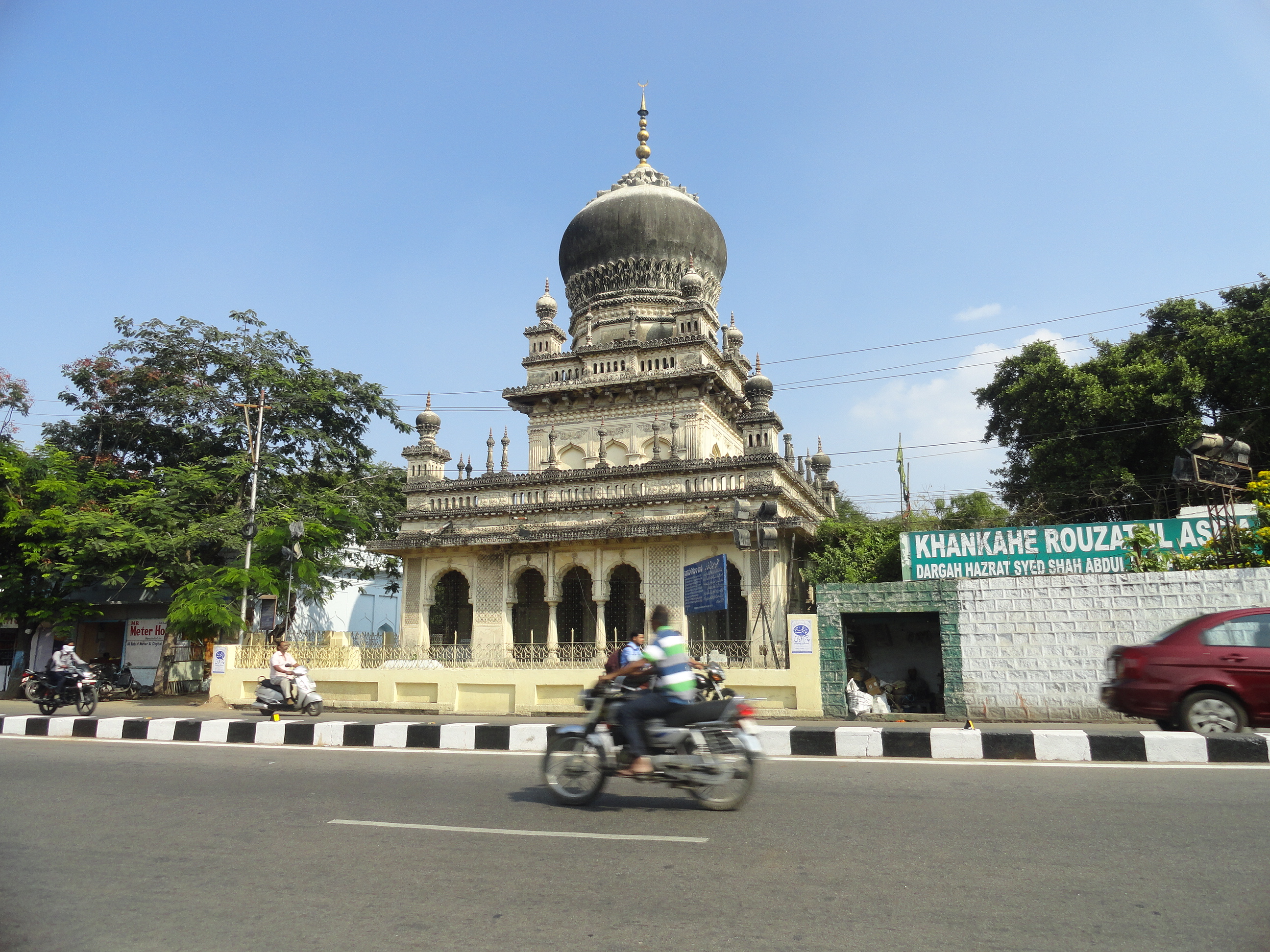 mosque of saidaniya saaheba, at secunderabad.